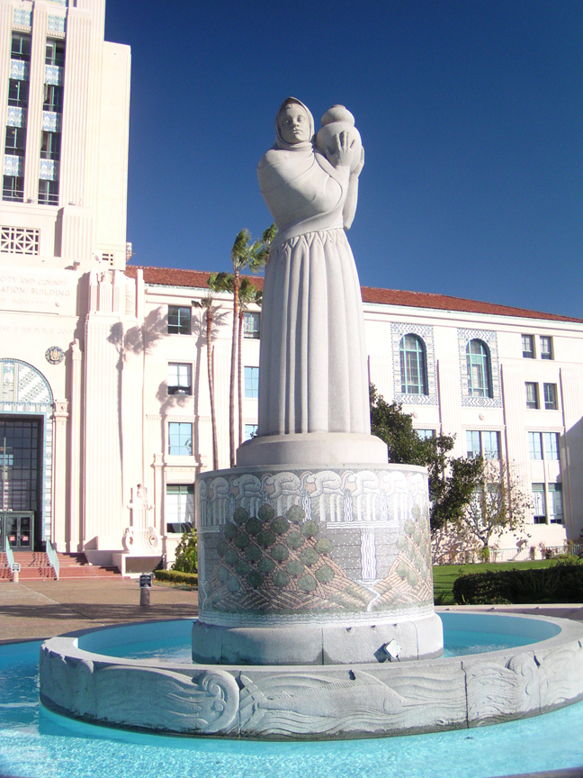 photo by Einar Einarsson Kvaran Donal Hord